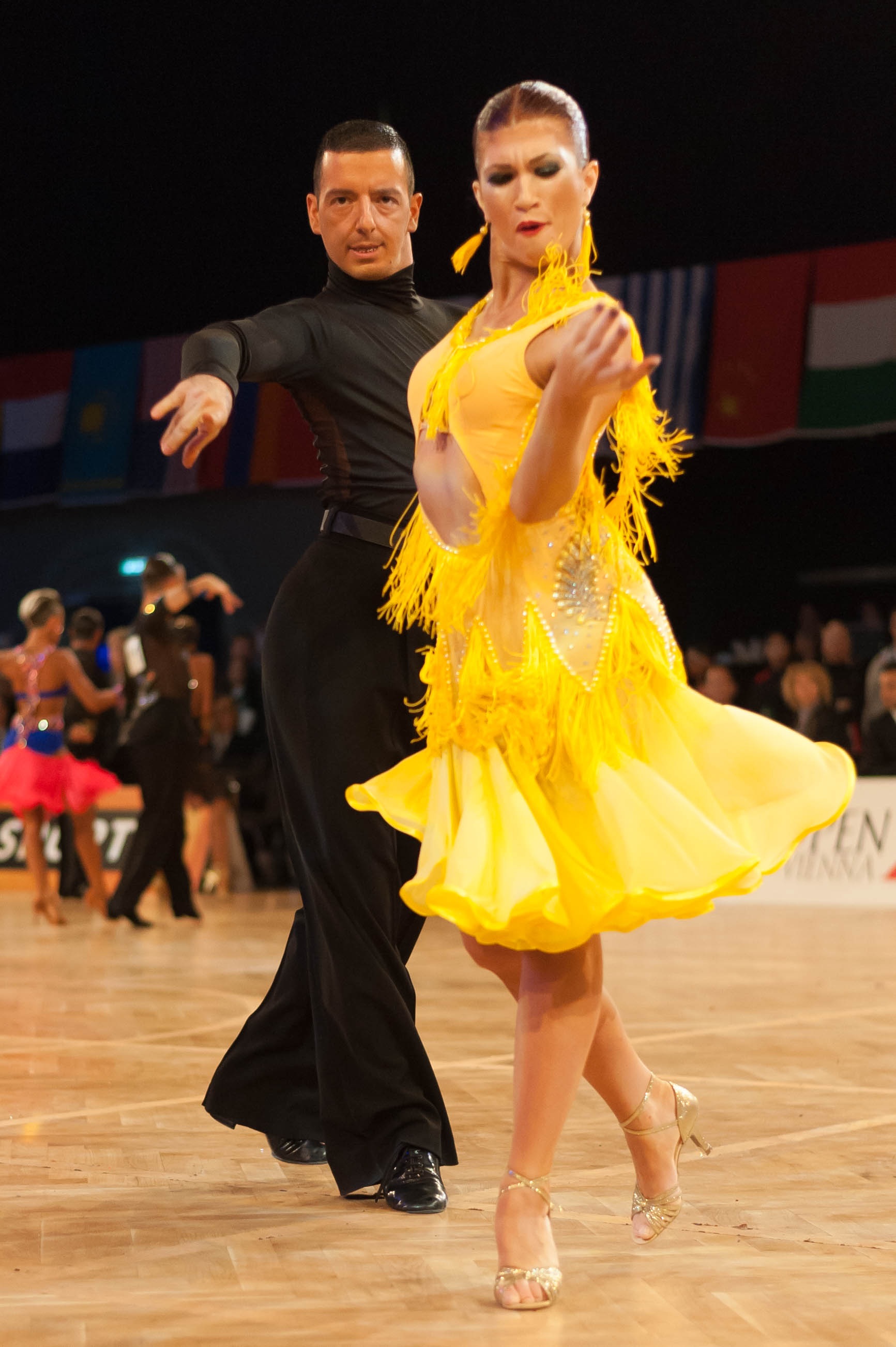 2015 WDSF World DanceSport Championship Latin, 2015-11-21, Schwechat, Lower Austria